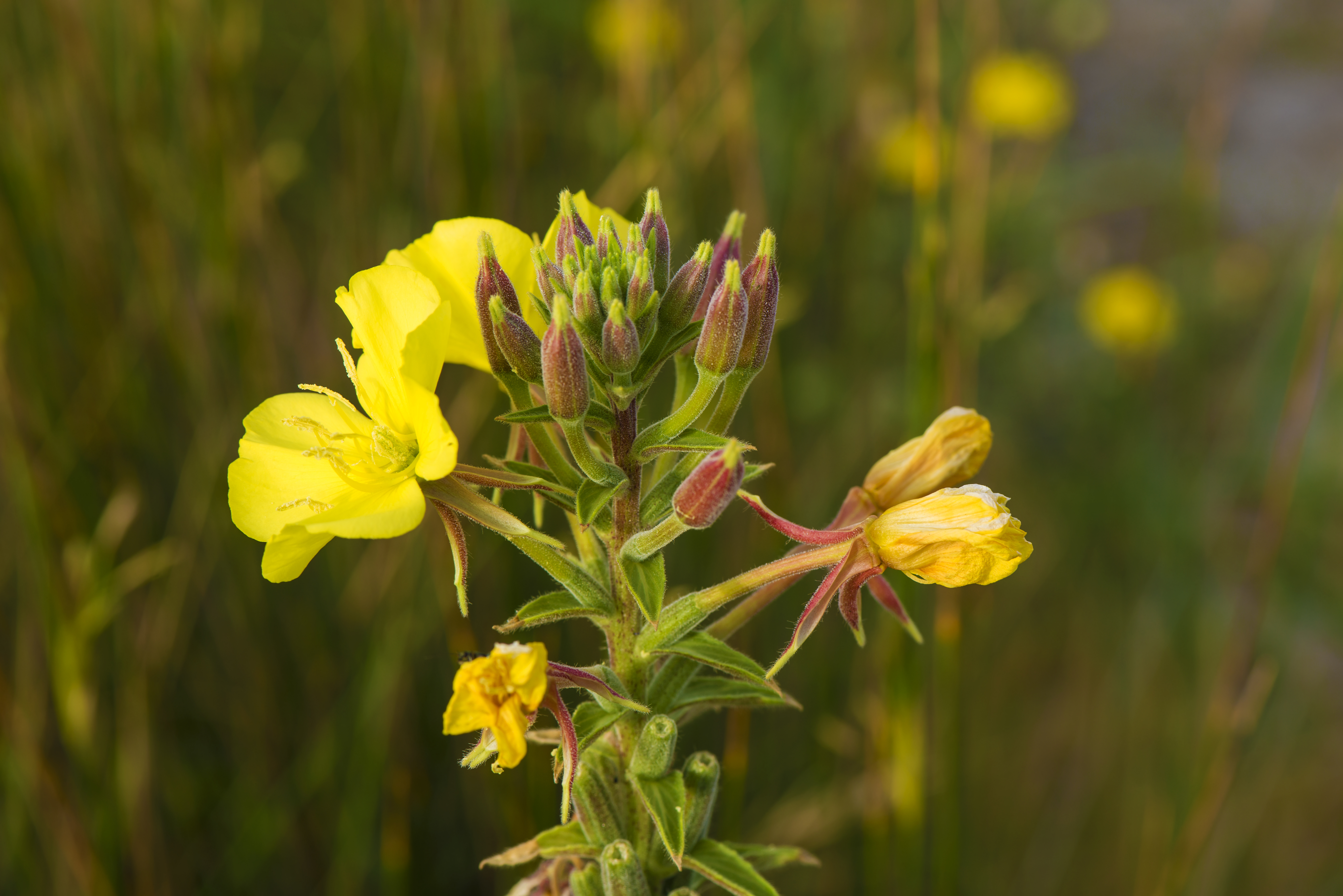 Oenothera biennis (common evening primrose). Flowers and buds. This plant have been identified with the help of Éric Pensa here : [2].